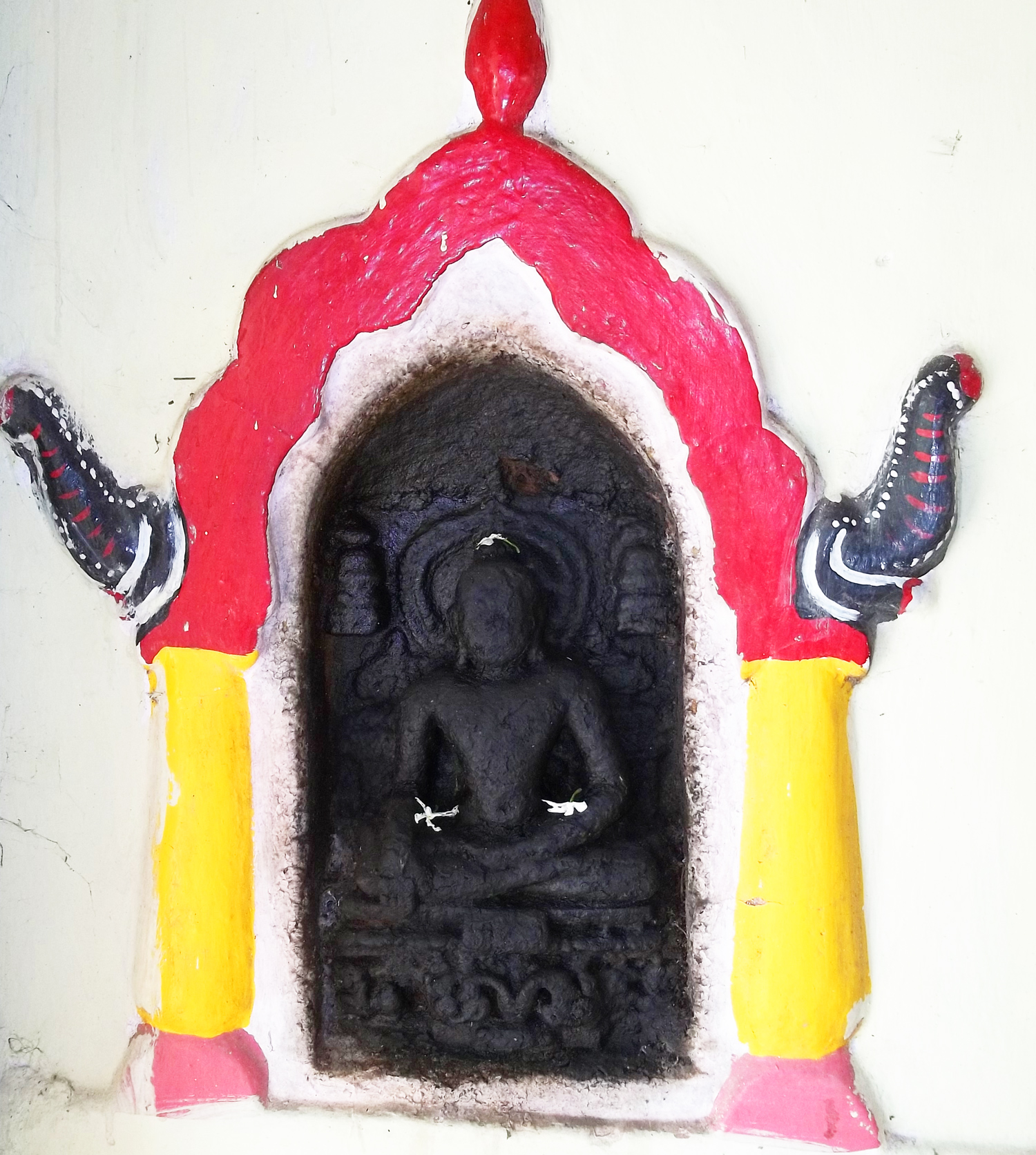 Marichi temple is located in the center of the village Ayodhya, which is situated 9.km north of Sujanagada, Baleswar, Odisha. It contains many ancient Buddhist symbols and idols.